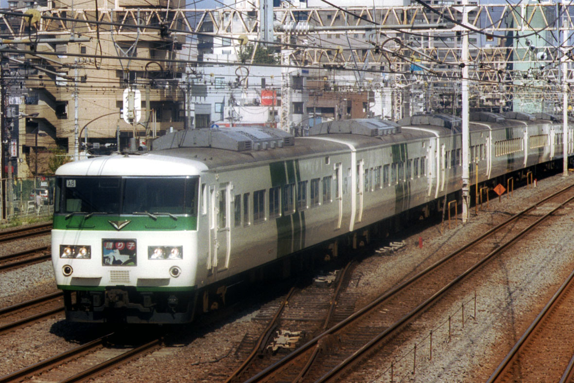 JR East 185 series EMU on an Odoriko service near Higashi-Kanagawa Station